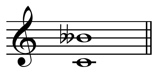 Diminished seventh on C = B. Just: = 946.93 cents. Equal-tempered: 29/12:1 = 900 cents. Created by Hyacinth (talk) 04:28, 8 January 2011 using Sibelius 5.